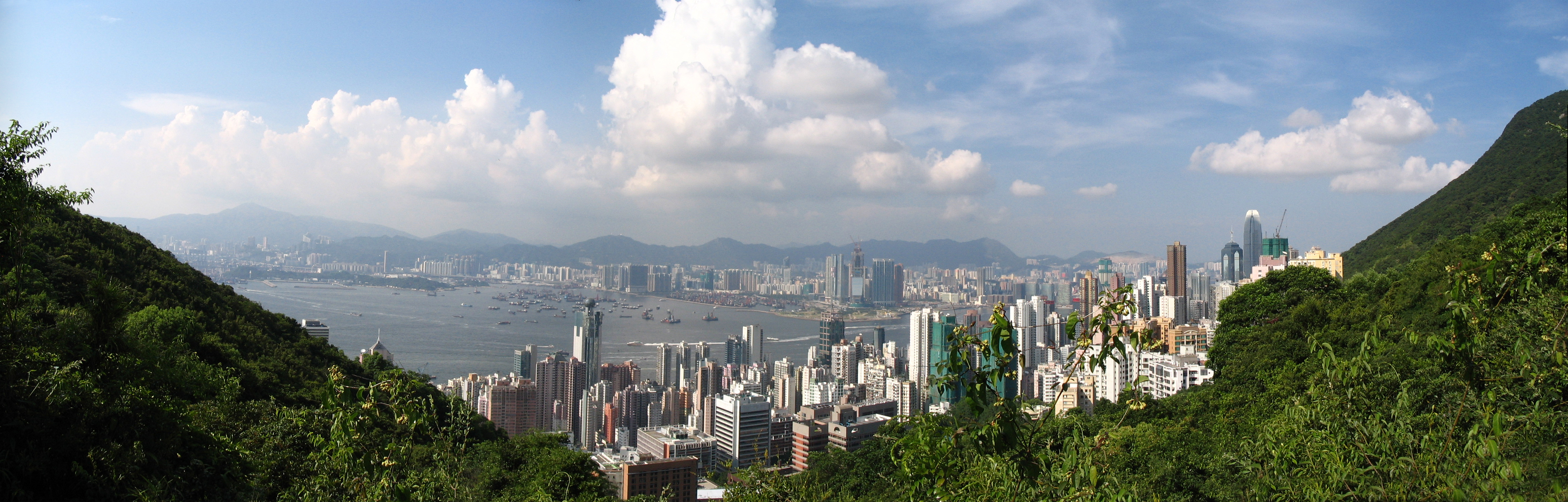 Panoramic photo of Sai Ying Pun, combined from 939036192, 938195749, 939041142 and 939043794